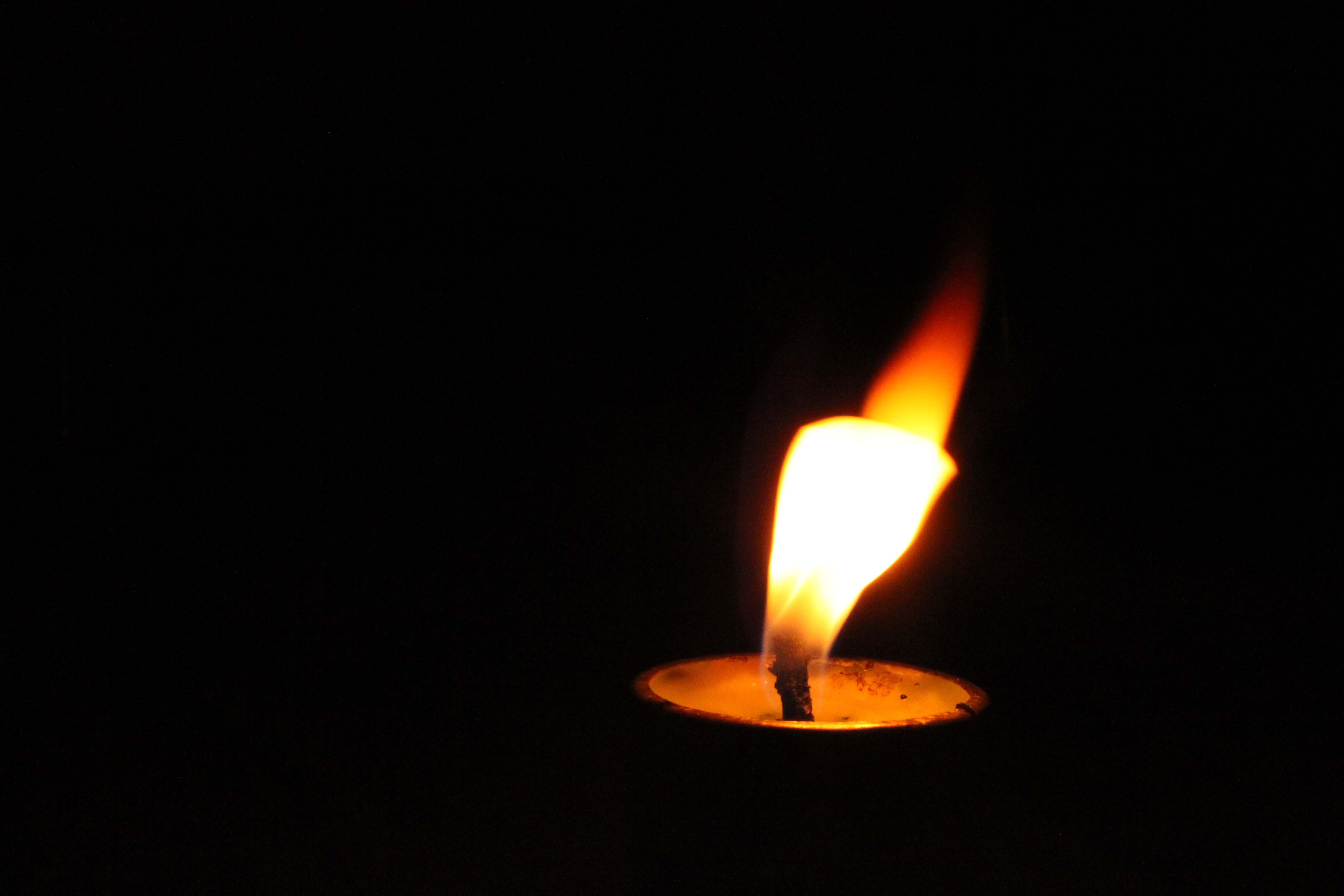 This picture shows the motion of a candle flame.